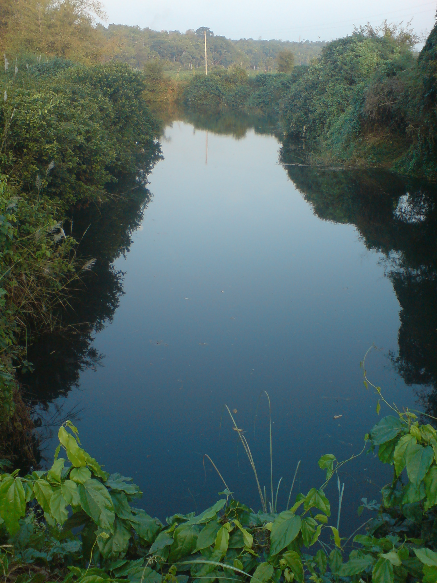 This is a sightsee of Parappur Panchayath.This is the part of Kadalundi River.